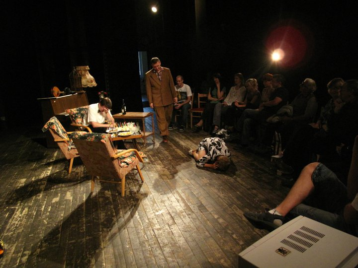 Performance of Unveiling (Vernisáž) by Divadlo Navenek in Kadaň